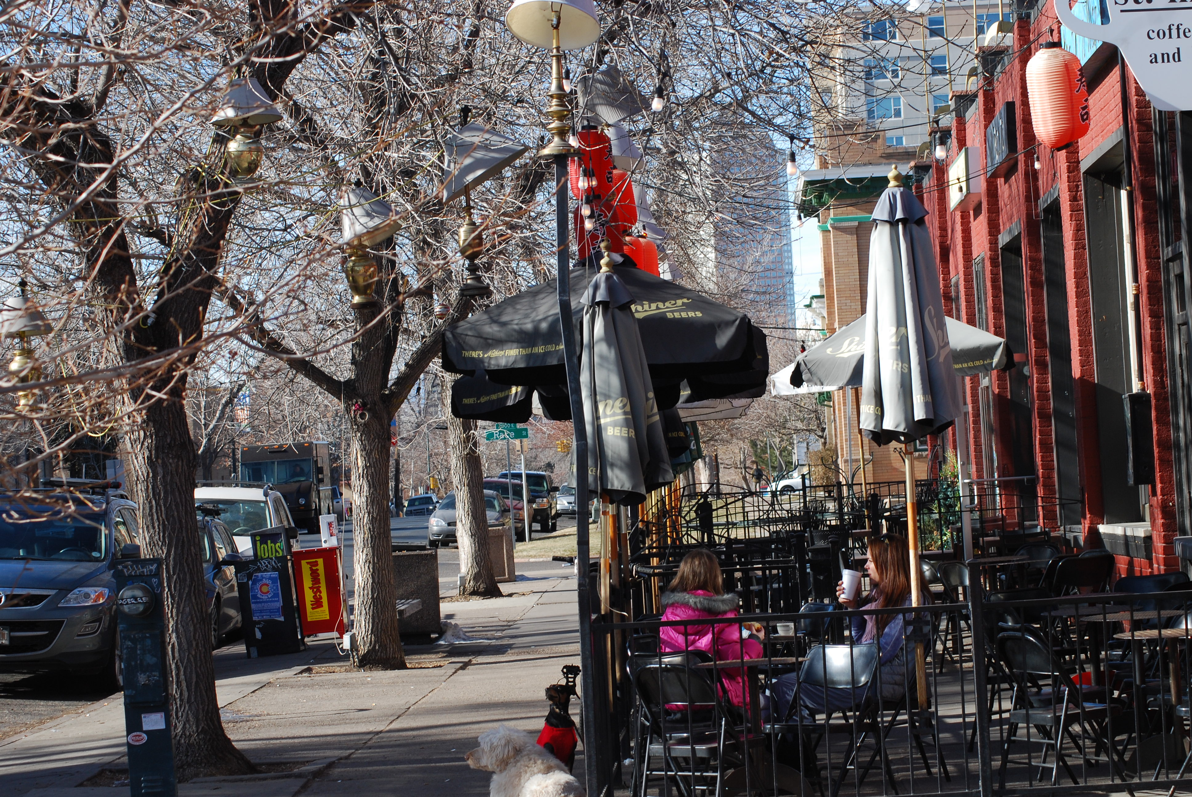 I took this shot today looking west down 17th St in between Race and Vine Streets, in City Park West, Denver, CO.